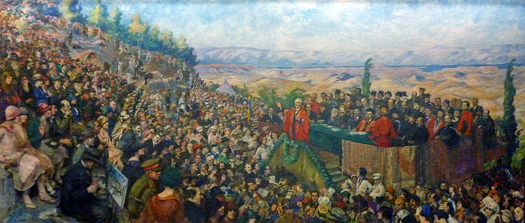 Grand opening of the Hebrew University - Leopold Philichovsky painting, April 1st 1925.jpg